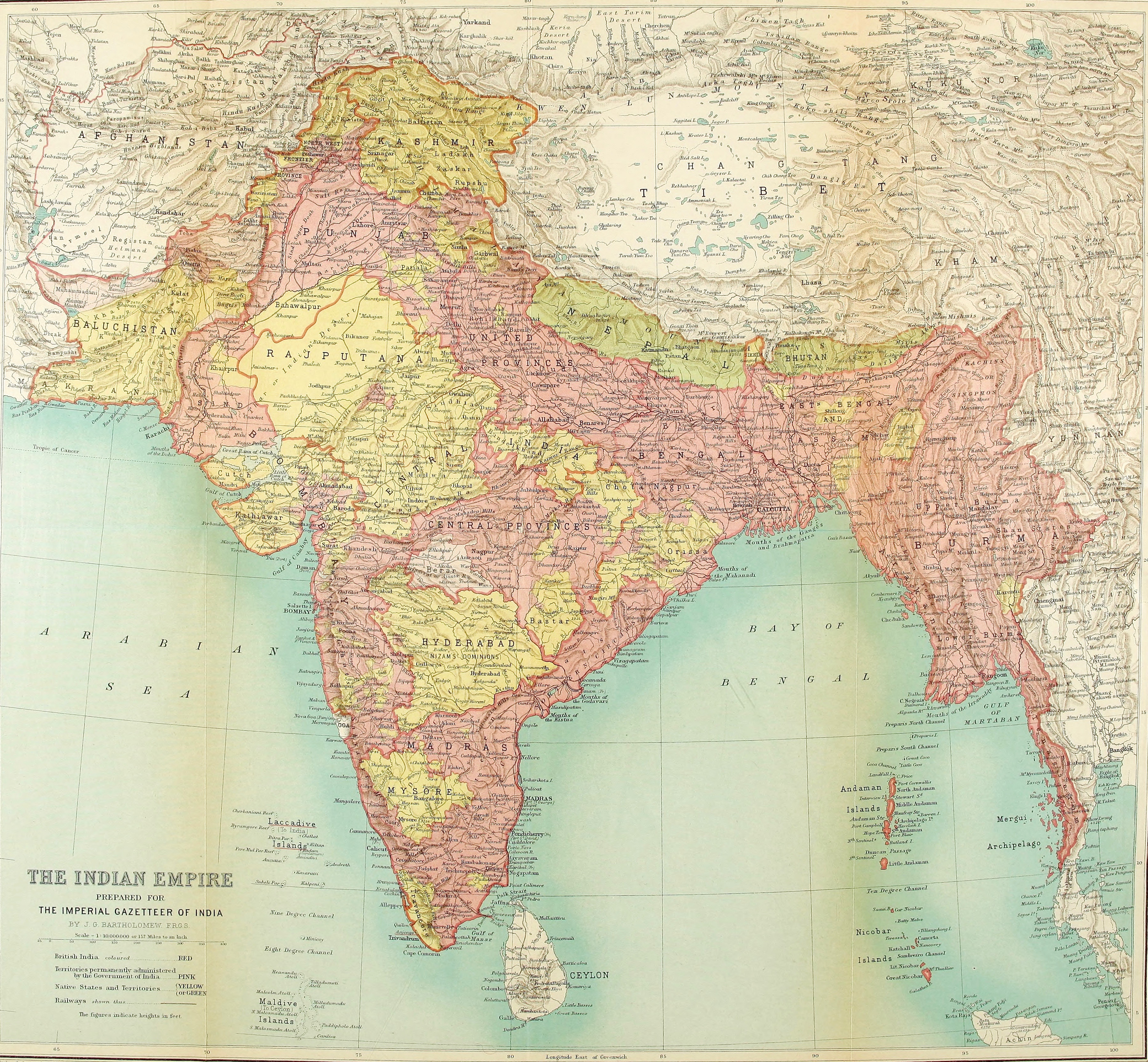 British India map by J. G. Bartholomew Imperial Gazetteer of India (Oxford, Clarendon Press) A series of South Asia maps were published over 1908-1931 A list of other maps of India are available at the following link: This map was published in 1922 License qualifies under PD-Art Archived by University of Chicago